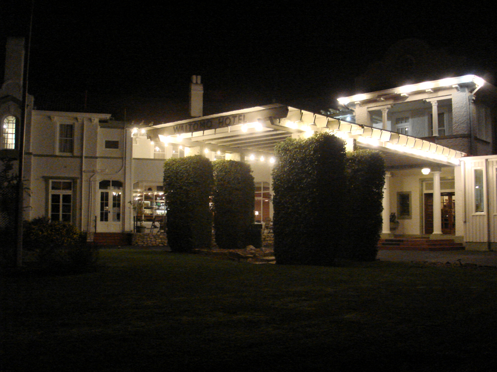 The Victorian wing of the hotel was built in 1908 as a government hostel. The Art Deco section seen here was added in 1928. The hostel became a hotel in 1954.